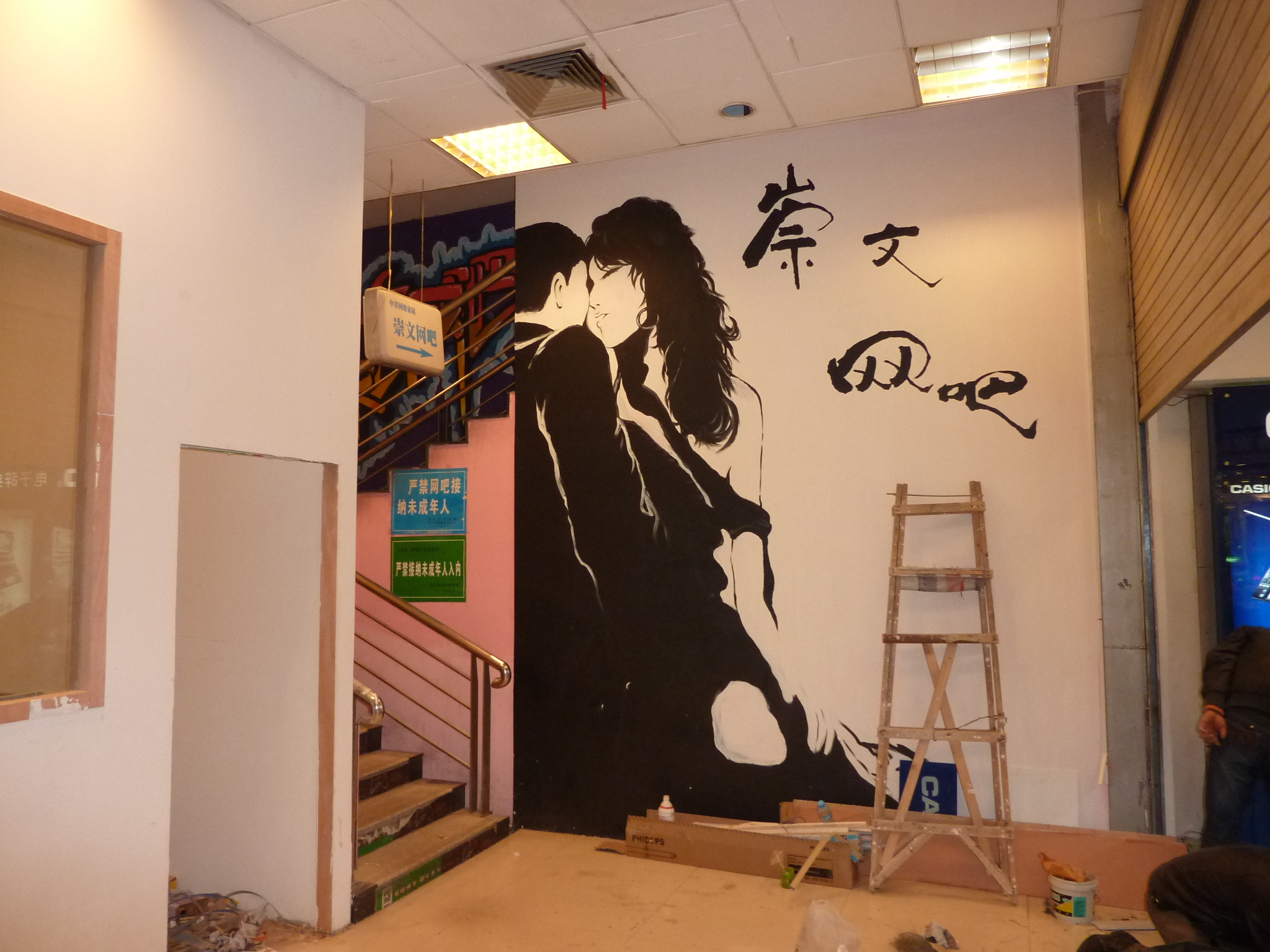 Inside the Chongwen Plaza. The stairs, according to the sign, lead to the internet cafe.